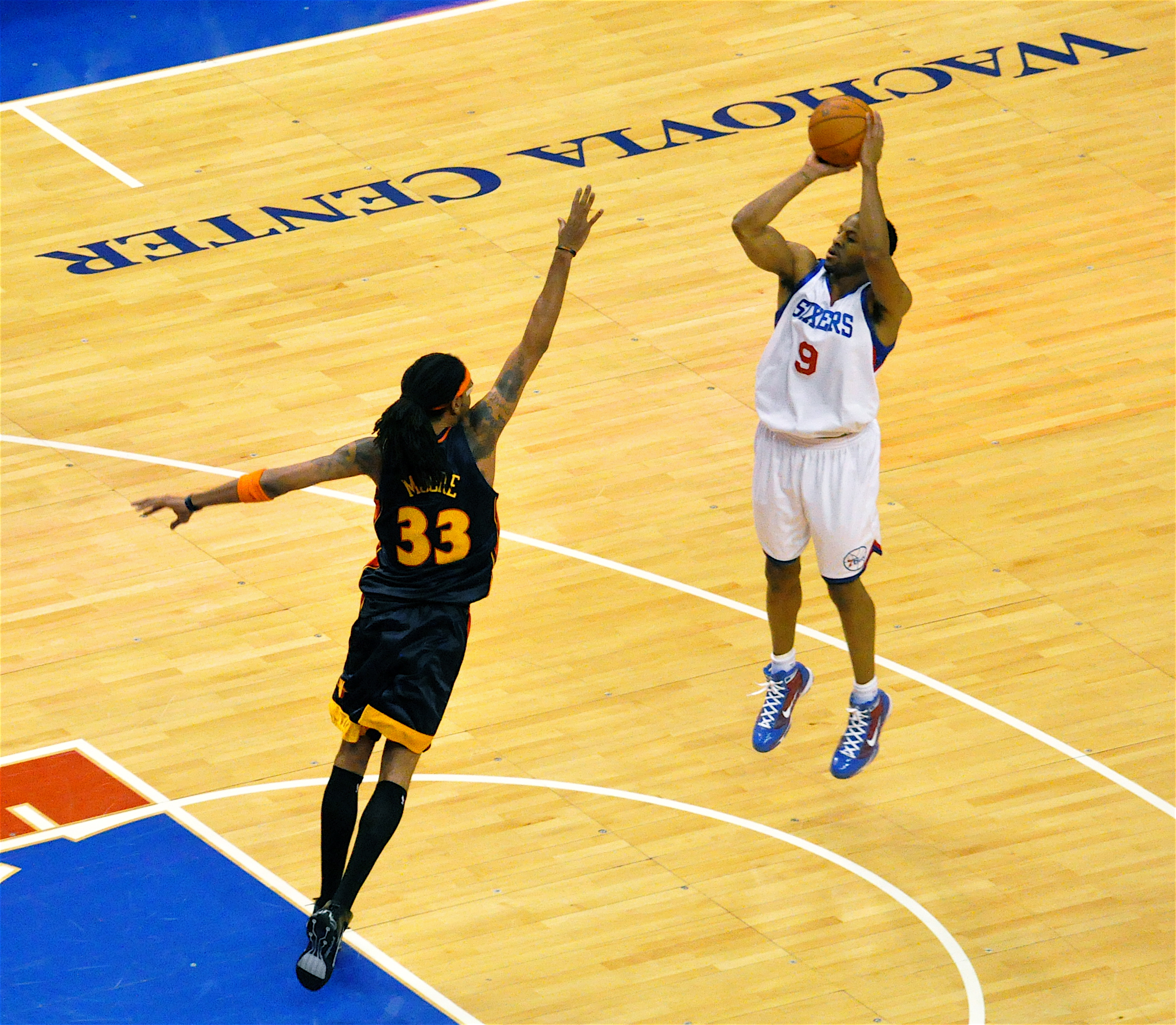 Andre Iguodala of the Philadelphia 76ers shooting over Mikki Moore of the Golden State Warriors.